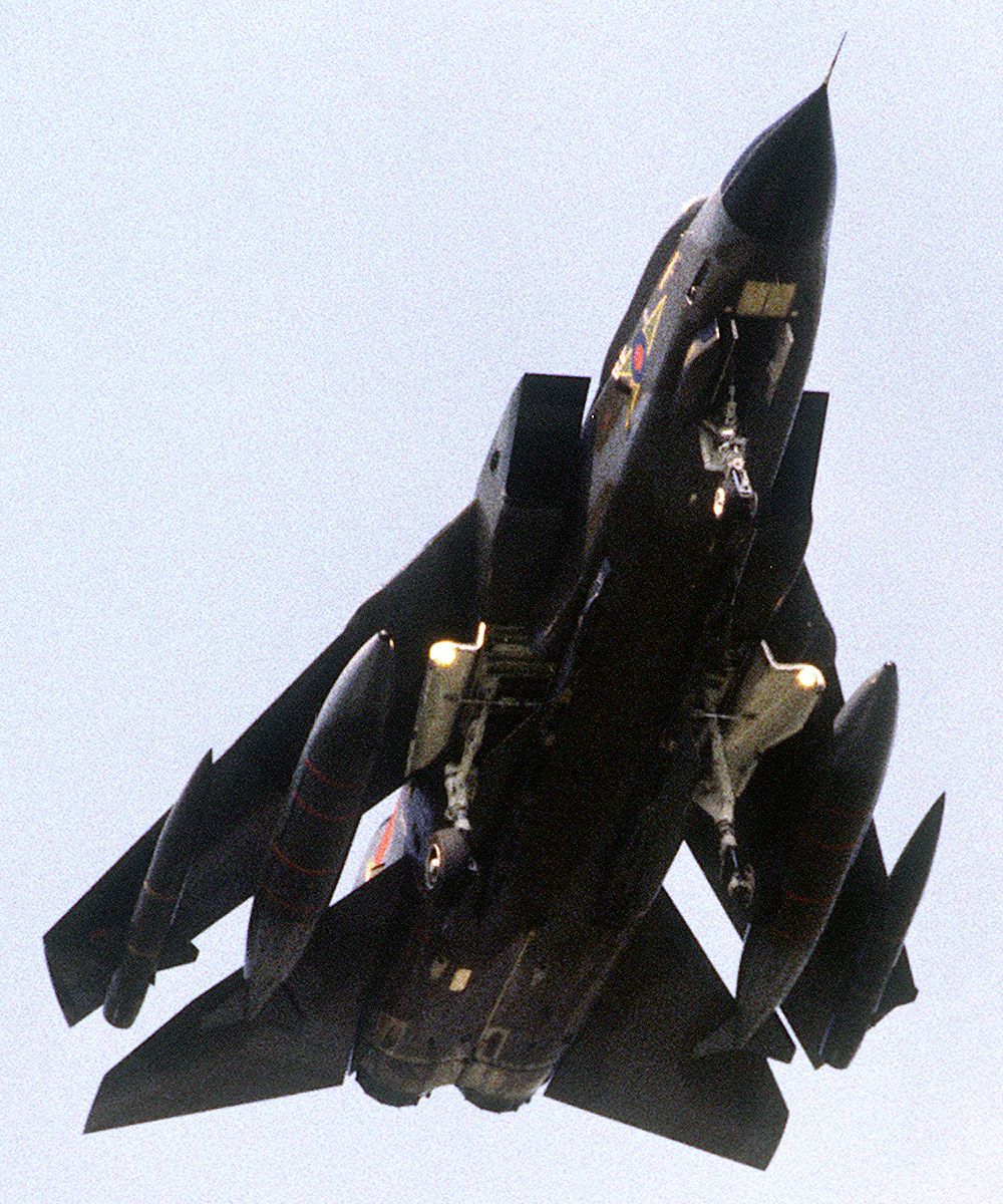 A British Panavia Tornado GR1 aircraft of No. 27 Squadron, Royal Air Force, in flight during "Air Fete '88", at RAF Mildenhall, Suffolk (UK), on 28 May 1988. The "Air Fete" was NATO aircraft display hosted by the U.S. Air Force 513th Airborne Command and Control Wing at RAF Mildenhall.